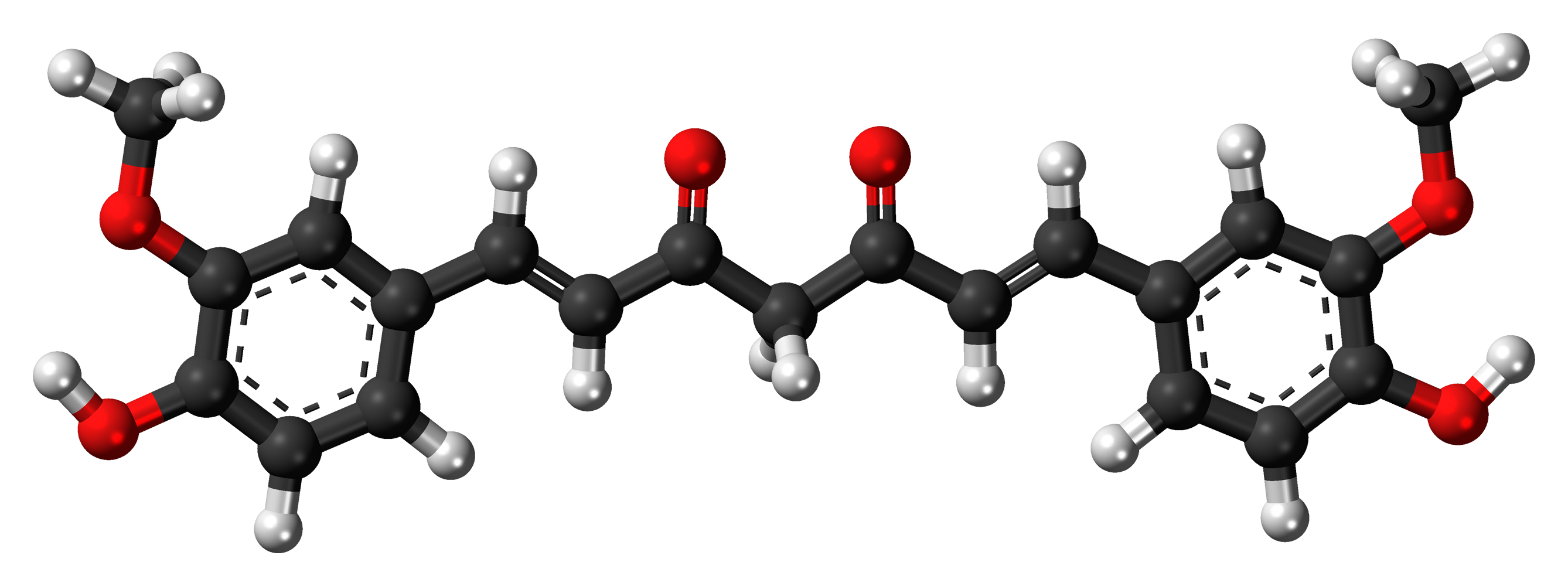 Ball-and-stick model of the curcumin molecule, the yellow coloring found in turmeric. This image shows the keto form. Colour code: Carbon, C: black Hydrogen, H: white Oxygen, O: red